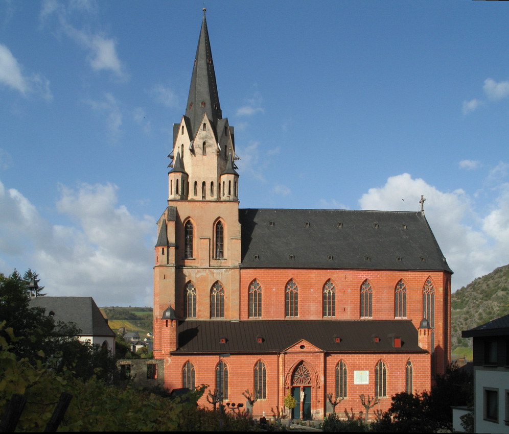 Liebfrauen Church of Oberwesel on the Middle Rhine